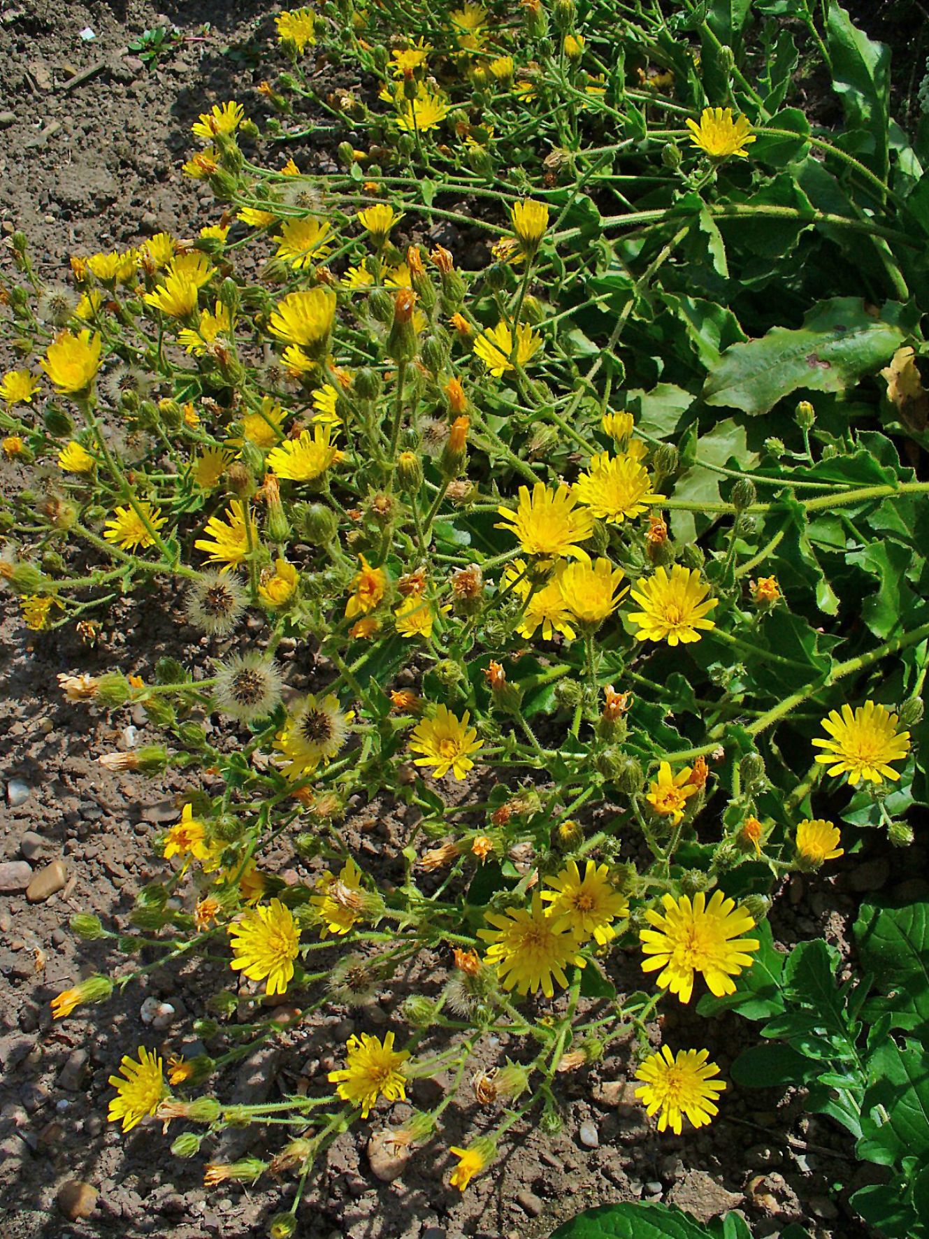 Hieracium amplexicaule, Asteraceae, Sticky Hawkweed, habitus; Botanical Garden KIT, Karlsruhe, Germany.